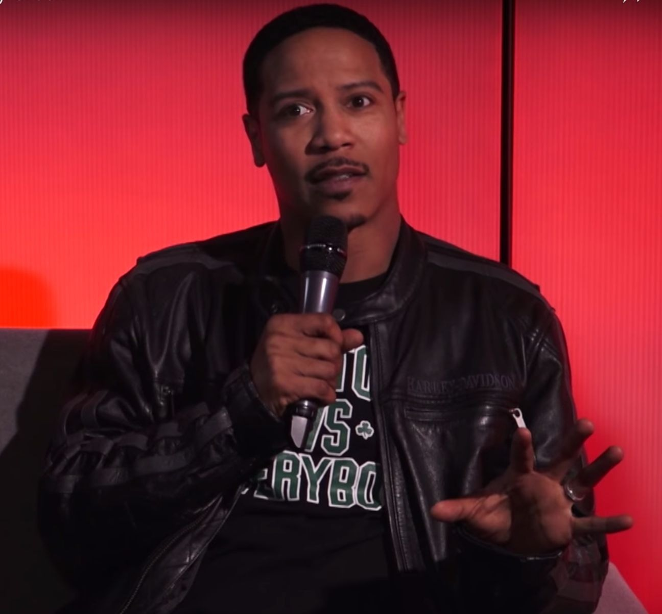 Brian White & Jill Marie Jones Talk About Their New Show With Lenny Green